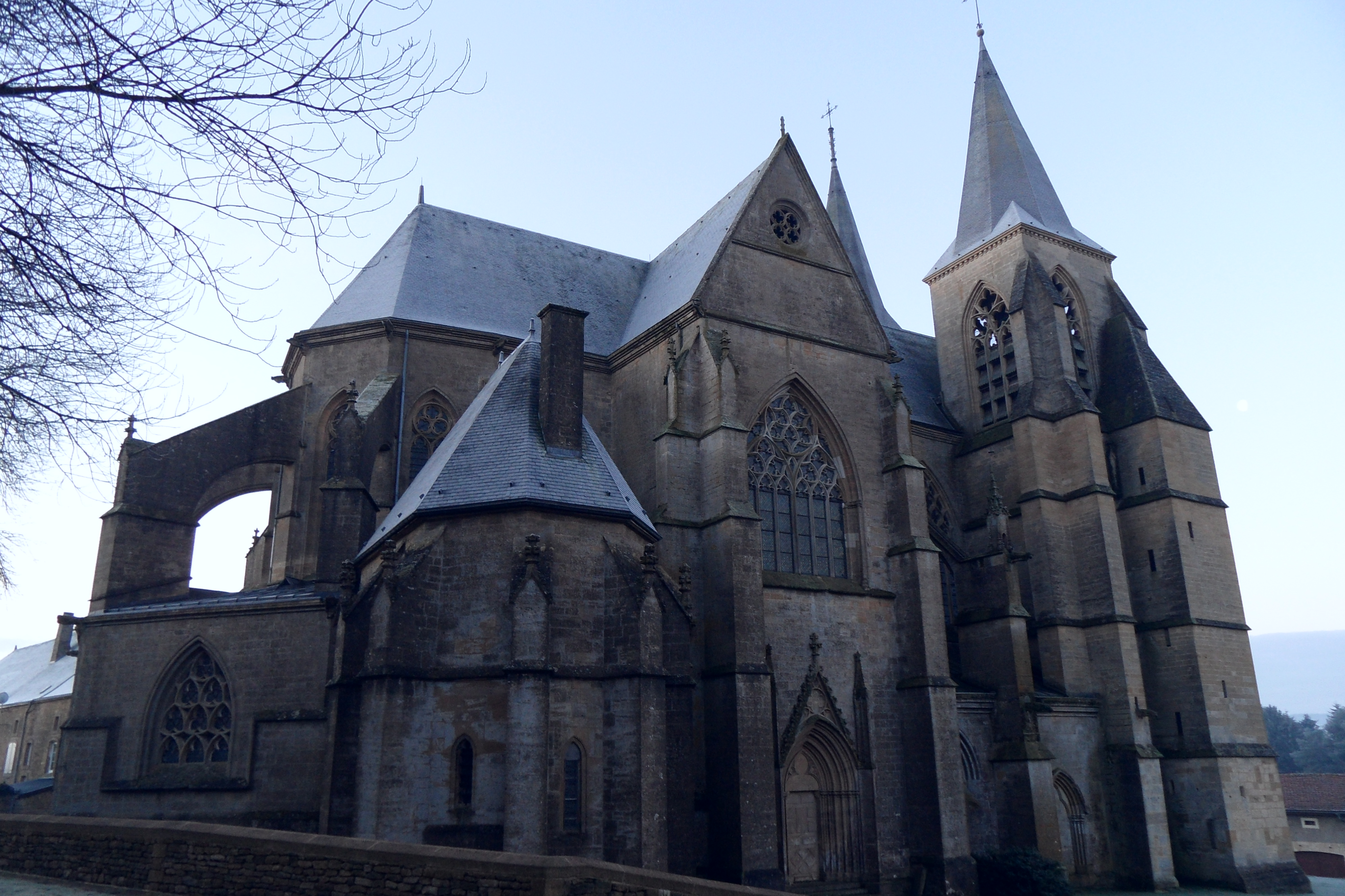 Notre-Dame d’Avioth basilica, northern side, at dawn (France, Meuse Department).